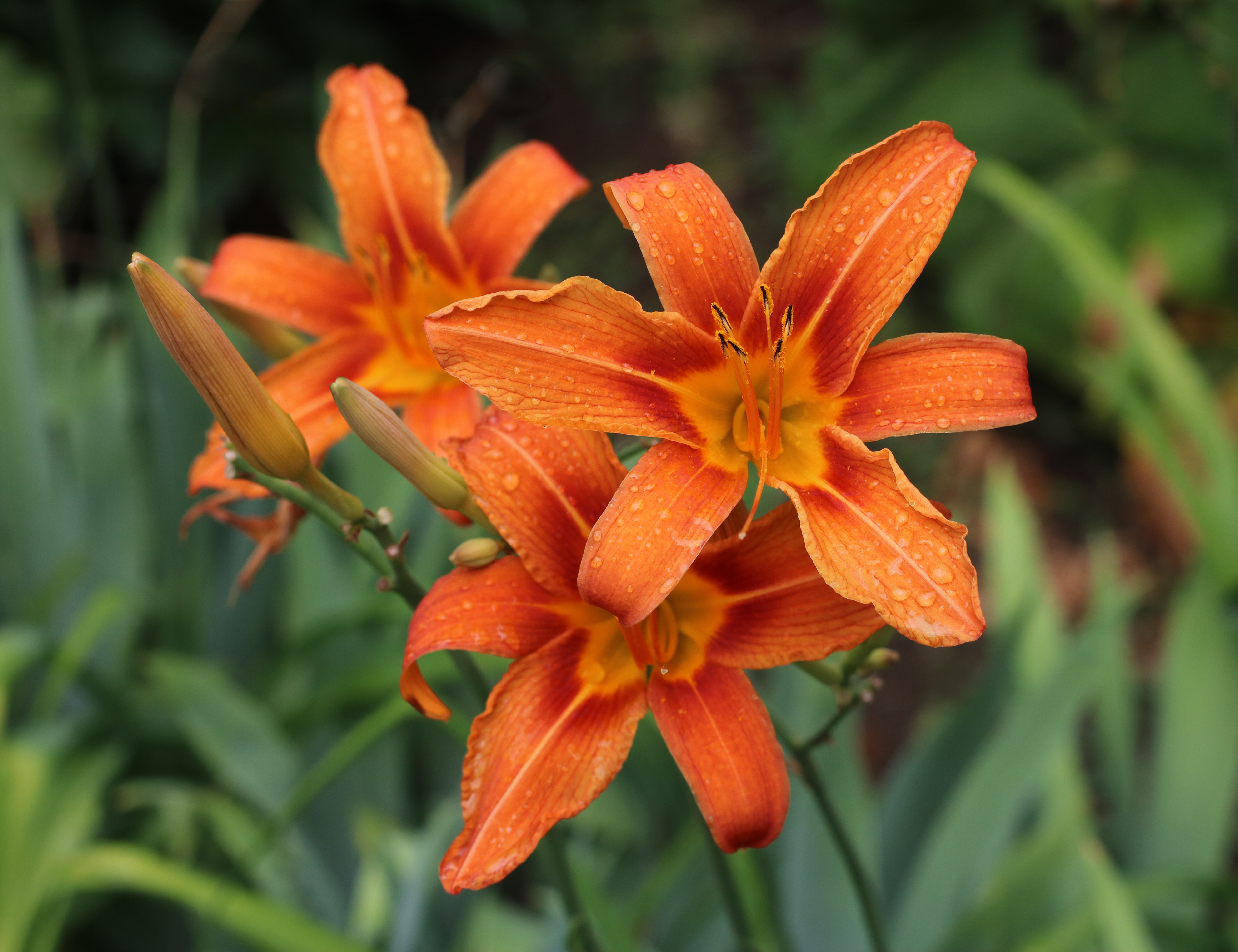 Orange Daylily, possibly a garden hybrid cultivar after a rain. Ukraine, Vinnytsia.